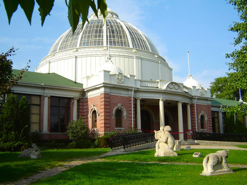 This is a photograph taken by Jesse Munroe (ExPlaceLover). It shows the Horticulture Building from the West Block of Exhibition Place in Toronto, Ontario.